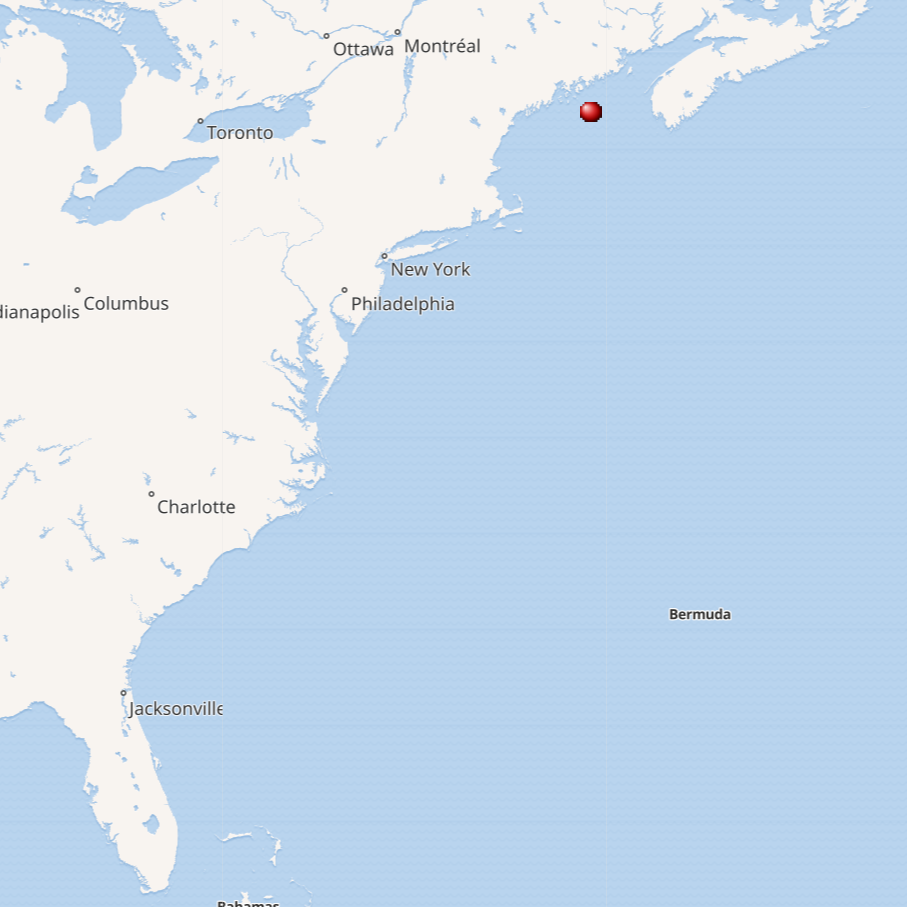 This map shows where the SS Cornwallis was sunk.